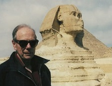 Mathematician Andrew Mattei Gleason in Egypt, 2001